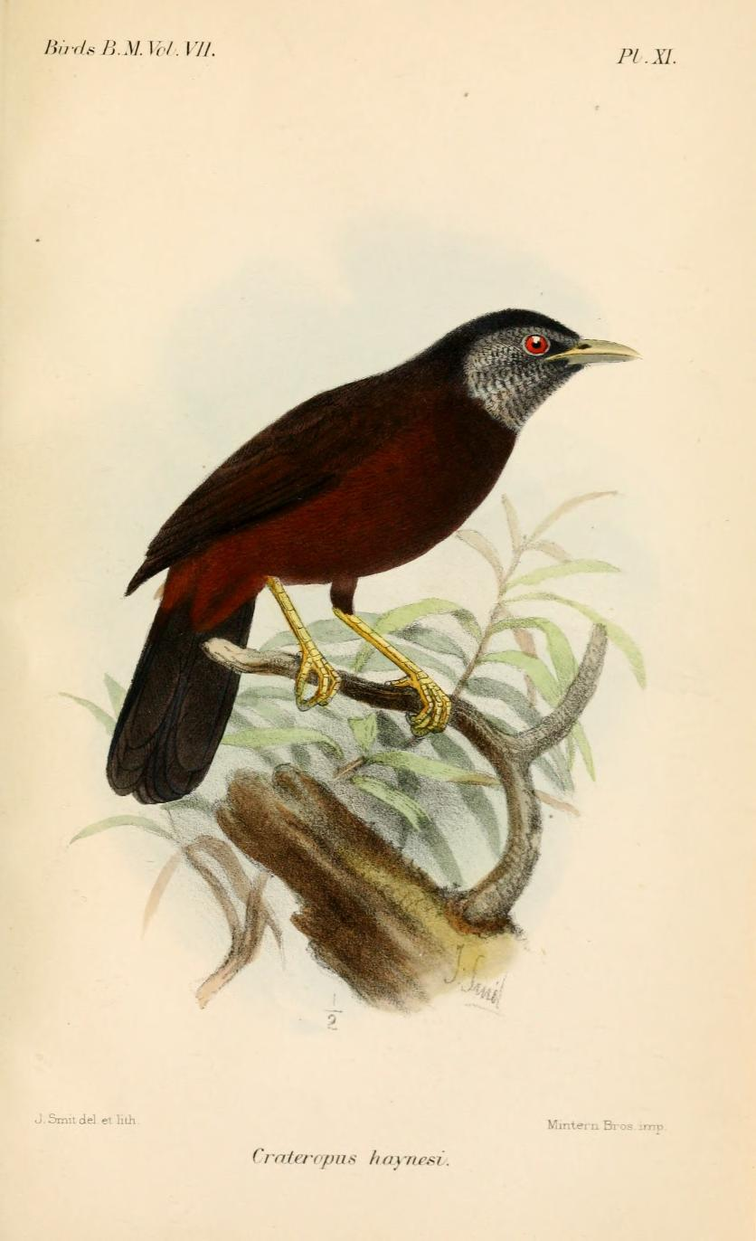 Crateropus haynesi = Phyllanthus atripennis Capuchin Babbler